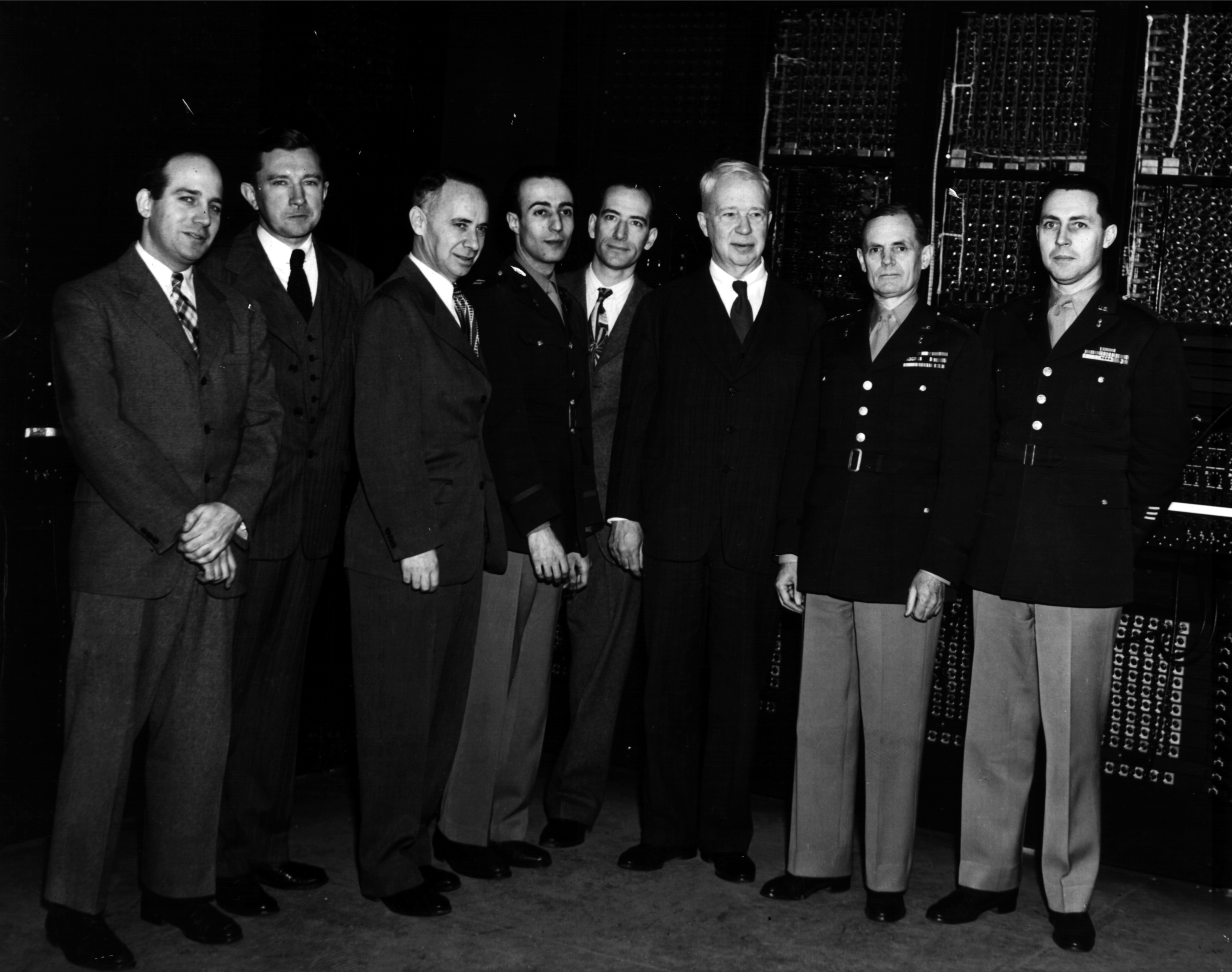 "U.S. Army Photo" entitled "ENIAC OFFICIALS", from the archives of Mrs. Kay Gillon. Left to Right: J. Presper Eckert, Jr., Chief Engineer; Professor J. G. Brainerd, Supervisor; Sam Feltman, Chief Engineer for Ballistics, Ordnance Department; Captain H. H. Goldstine, Liaison Officer; Dr. J. W. Mauchly, Consulting Engineer; Dean Harold Pender, Moore School of Electrical Engineering, University of Pennsylvania; General G. M. Barnes, Chief of the Ordnance Research and Development Service; Colonel Paul N. Gillon, Chief, Research Branch of the Army Ordnance Research and Development Service.